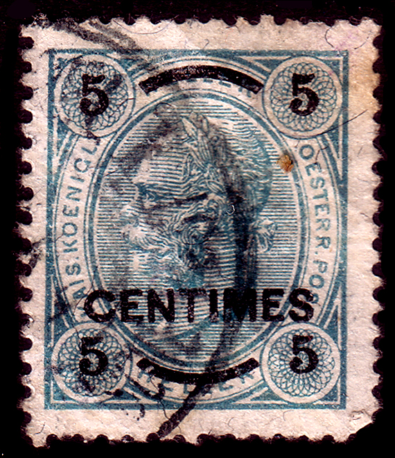 5 centimes overprint on 5 heller stamp of Austria (issue 1901) for Austrian post offices in the Levant, May 1903, Michel 1